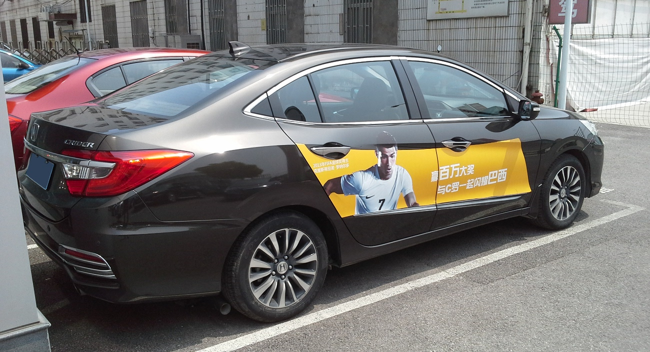 Honda Crider photographed in Shanghai, China.